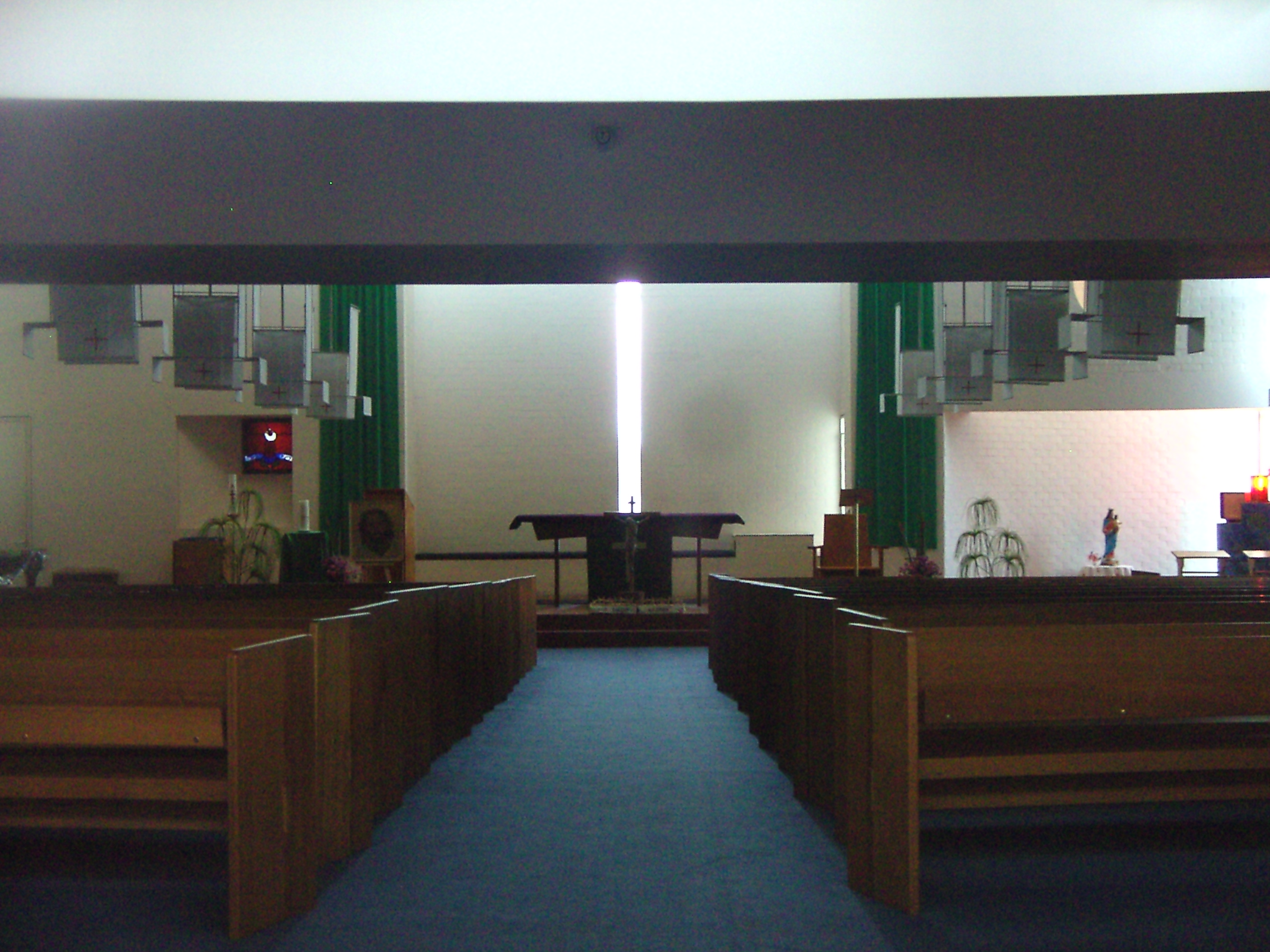 Aldo Giurgola's St Thomas Aquinas church, Charnwood ACT aisle and alter